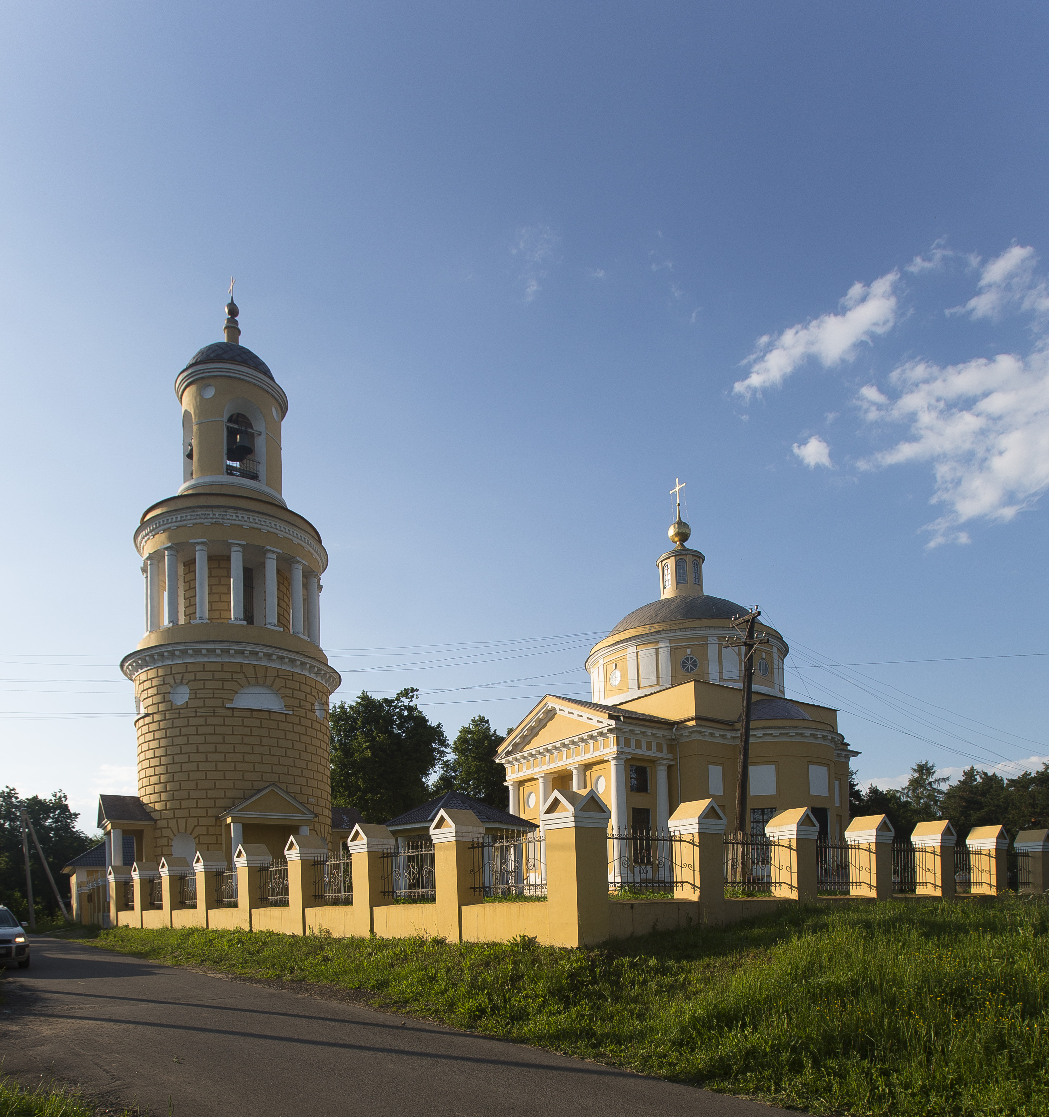 Church of St. Nicholas in Nicholskoe-Gagarino Ruza district of the Moscow region.